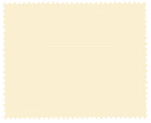 Artistamp creation tool of a blank stamp cream colored background